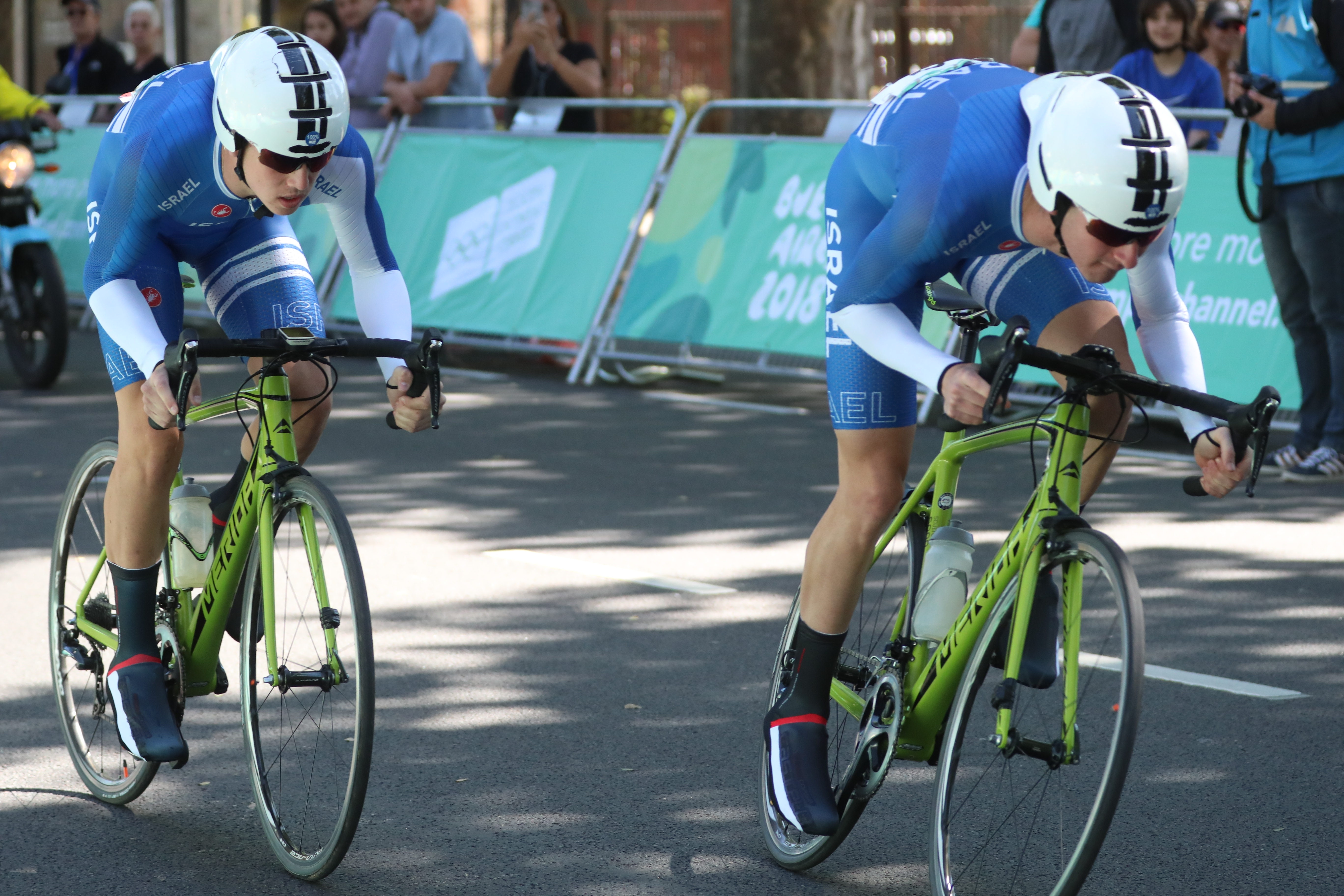 Team Time Trial of the cycling boys' combined team versus Puerto Rico at the 2018 Summer Youth Olympics in Buenos Aires on 13 October 2018.